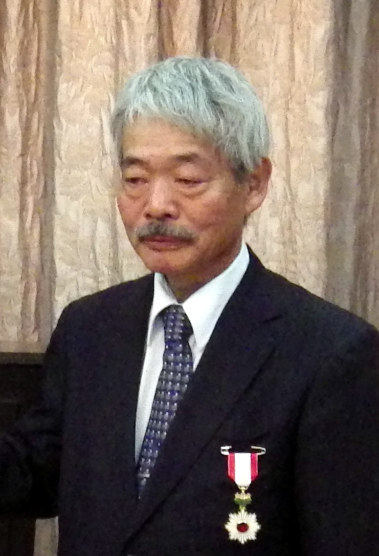 Mitsuji Suzuka, Ambassador to Afghanistan, conducted an investiture ceremony at the Ambassador's Official Residence in Kabul on November 17, 2016. Tetsu Nakamura, Executive Director of the Peace Japan Medical Services, was given the Order of the Rising Sun, Gold and Silver Rays from Suzuka.